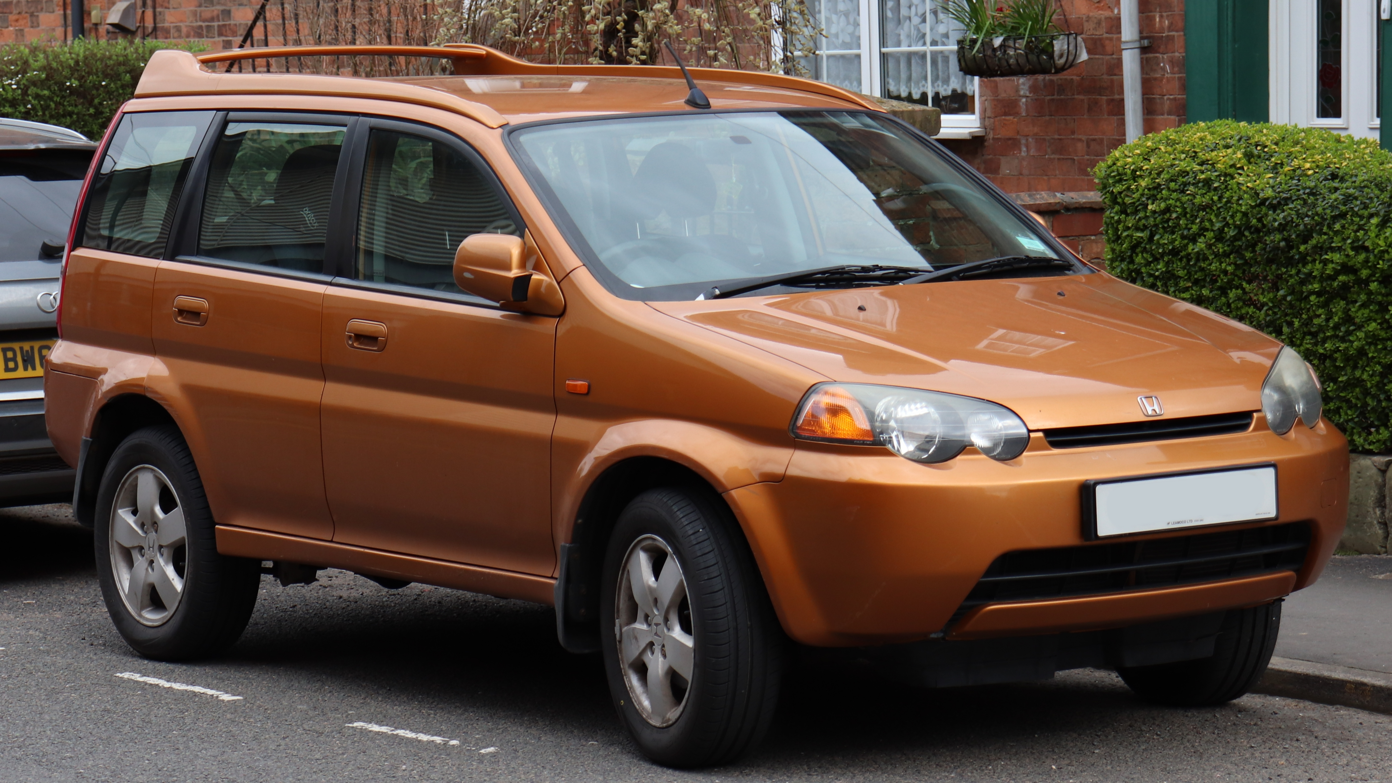 2000 Honda HR-V 1.6 Front Taken in Warwick